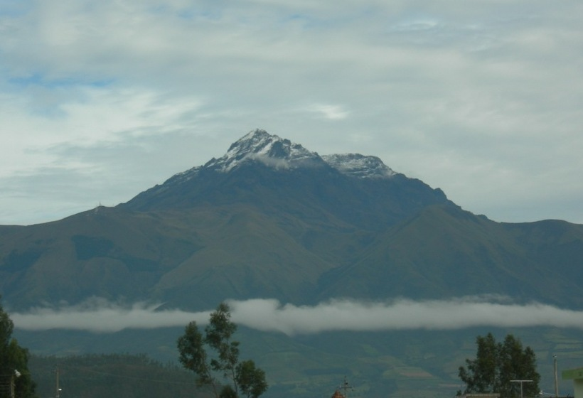 the mountain behind my house... in fact i'm surrounded by them